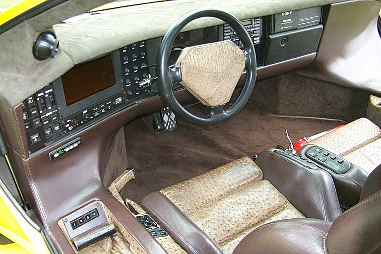 Vector W8